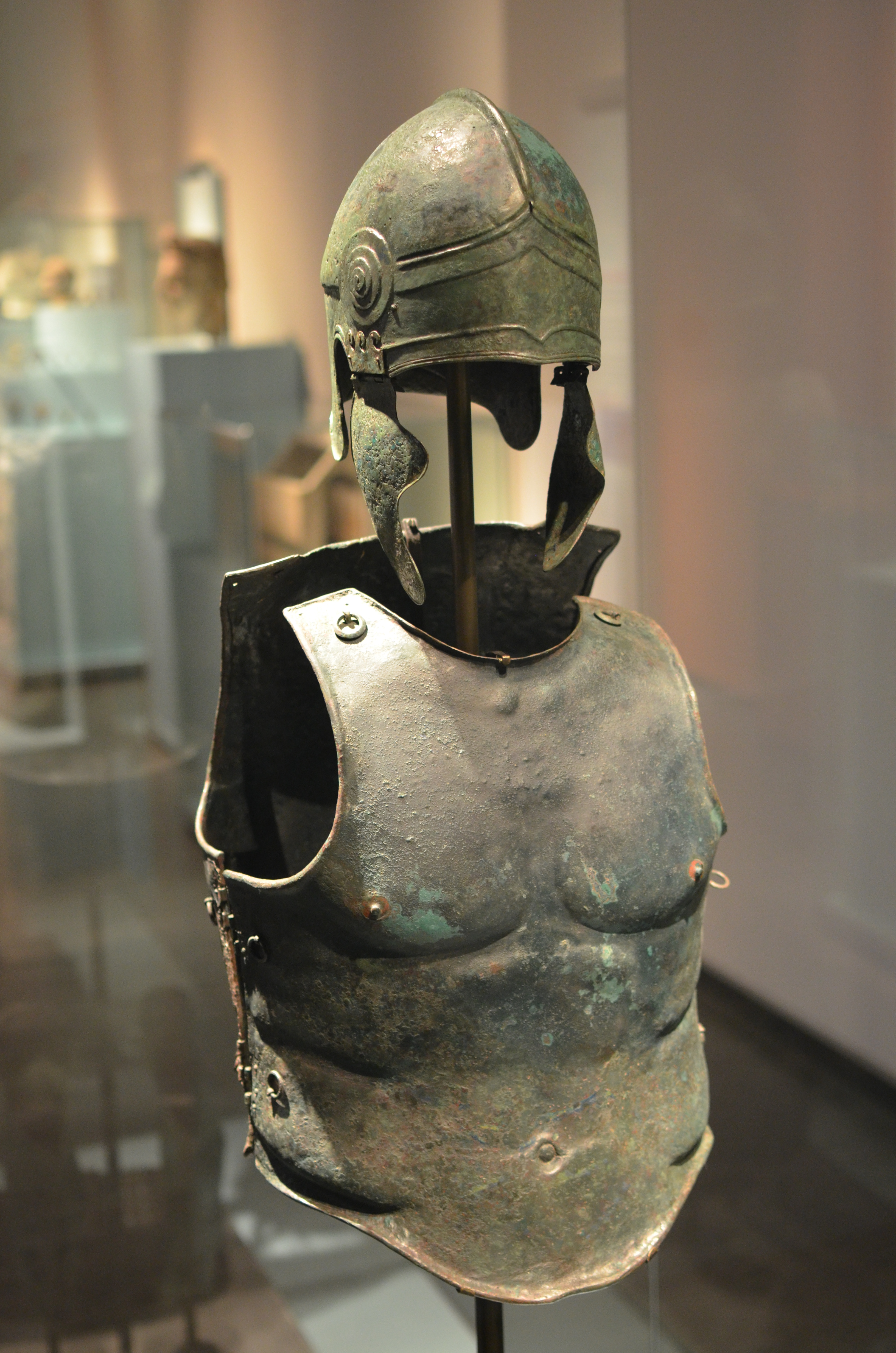 Greek panoply of helmet and muscle cuirass. The greaves and belt are not shown on the photo. The panoply was made in Southern Italy.